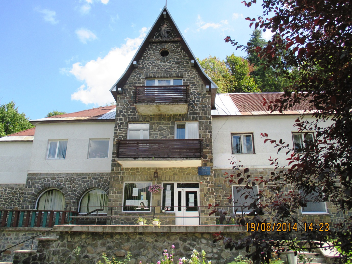 Medical building of the sanatorium Syniak